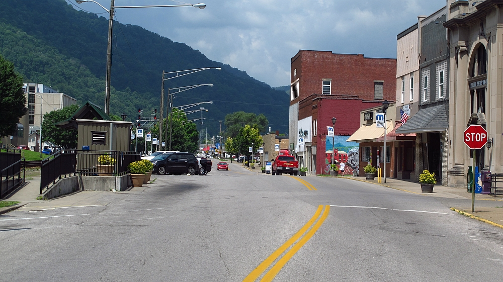 Looking west on Third Avenue in Montgomery, West Virginia. The Montgomery Amtrak station is on the left.